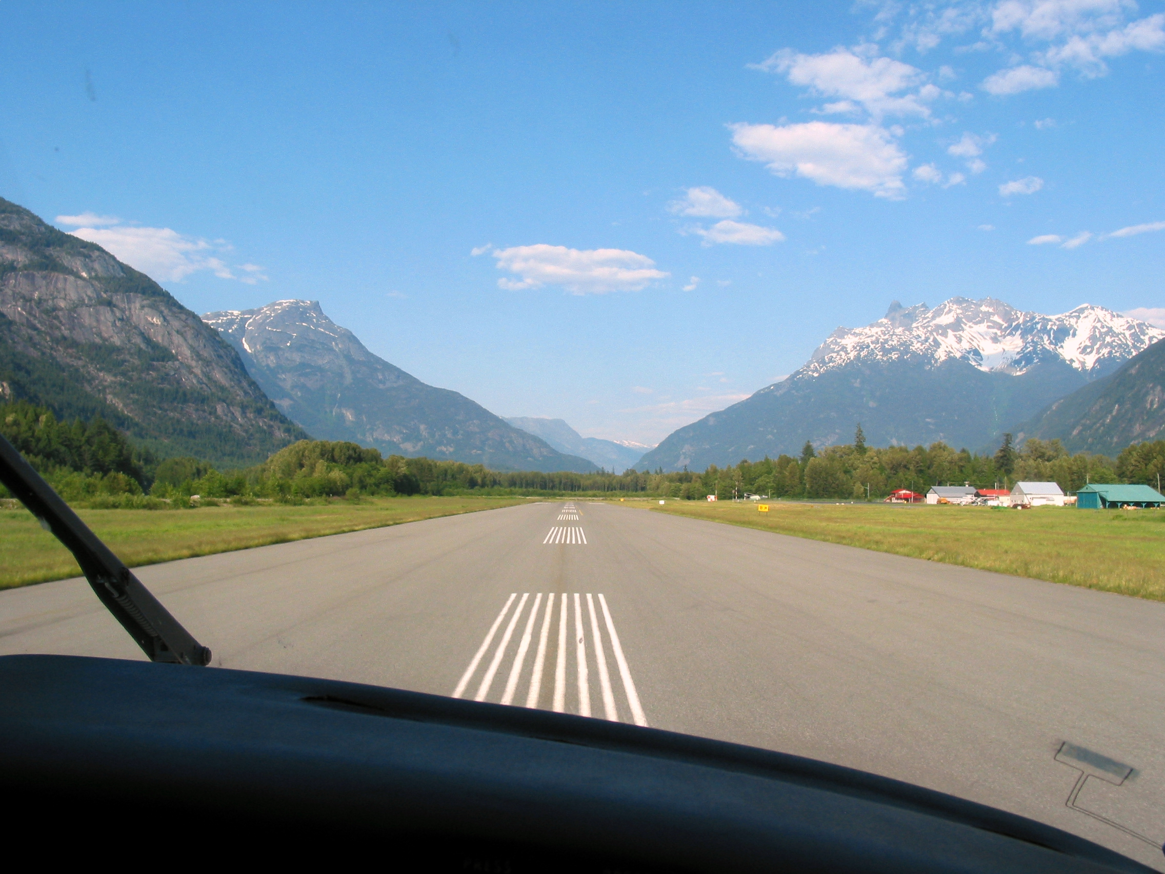 Backtracking Bella Coola